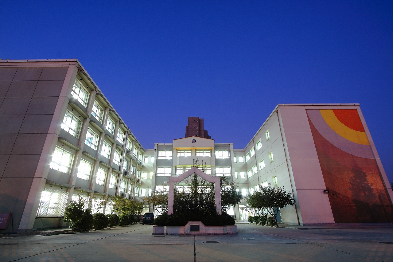 Japanese School of Beijing